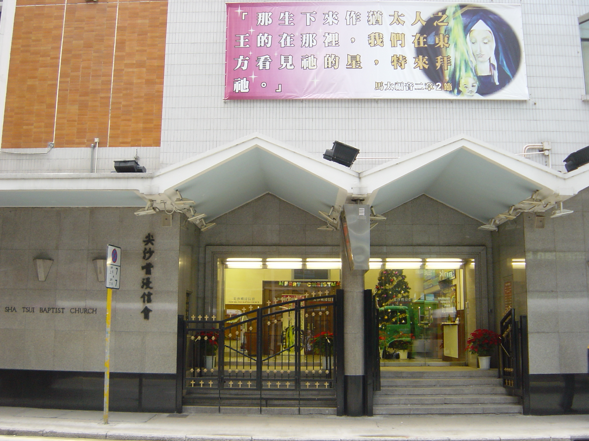 香港尖沙嘴浸信會。Baptist Churches, Tsim Sha Tsui, Hong Kong.